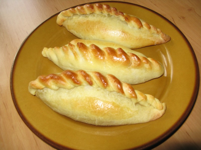 Kybyns - dish of Karaim cuisine